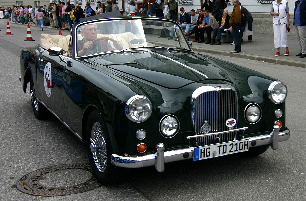 Alvis TD21 DHC, PS / ccm / BJ : 85 / 2993 / 1962